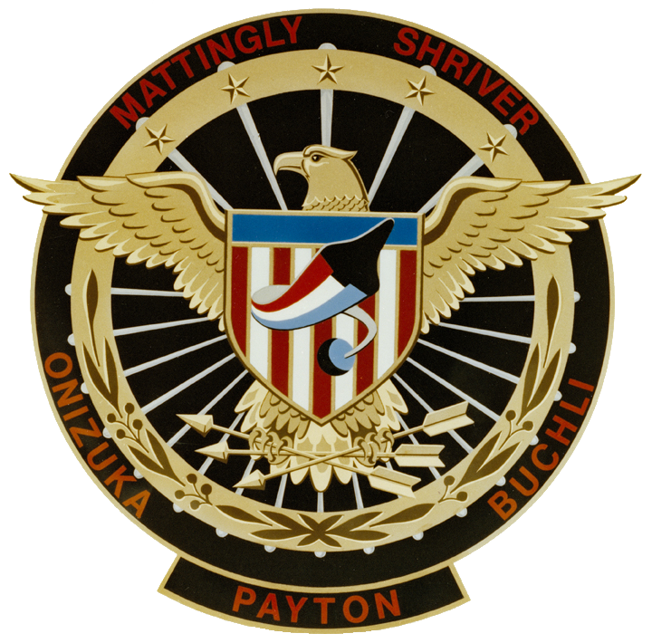 The crew insignia for STS Flight 51-C includes the names of its five crewmembers. The STS 51-C mission marked the third trip of the Space Shuttle Discovery into space. It was the first Space Shuttle mission totally dedicated to the Department of Defense, hence the DoD central eagle on the mission patch. The U. S. Air Force Inertial Upper Stage Booster Rocket was successfully deployed. Due to the nature of the mission, few additional details of the flight were made available. Landing was made at the Kennedy Space Center, FL on January 27 at 4:23 PM EST. Mission duration was three days, one hour and 33 minutes.